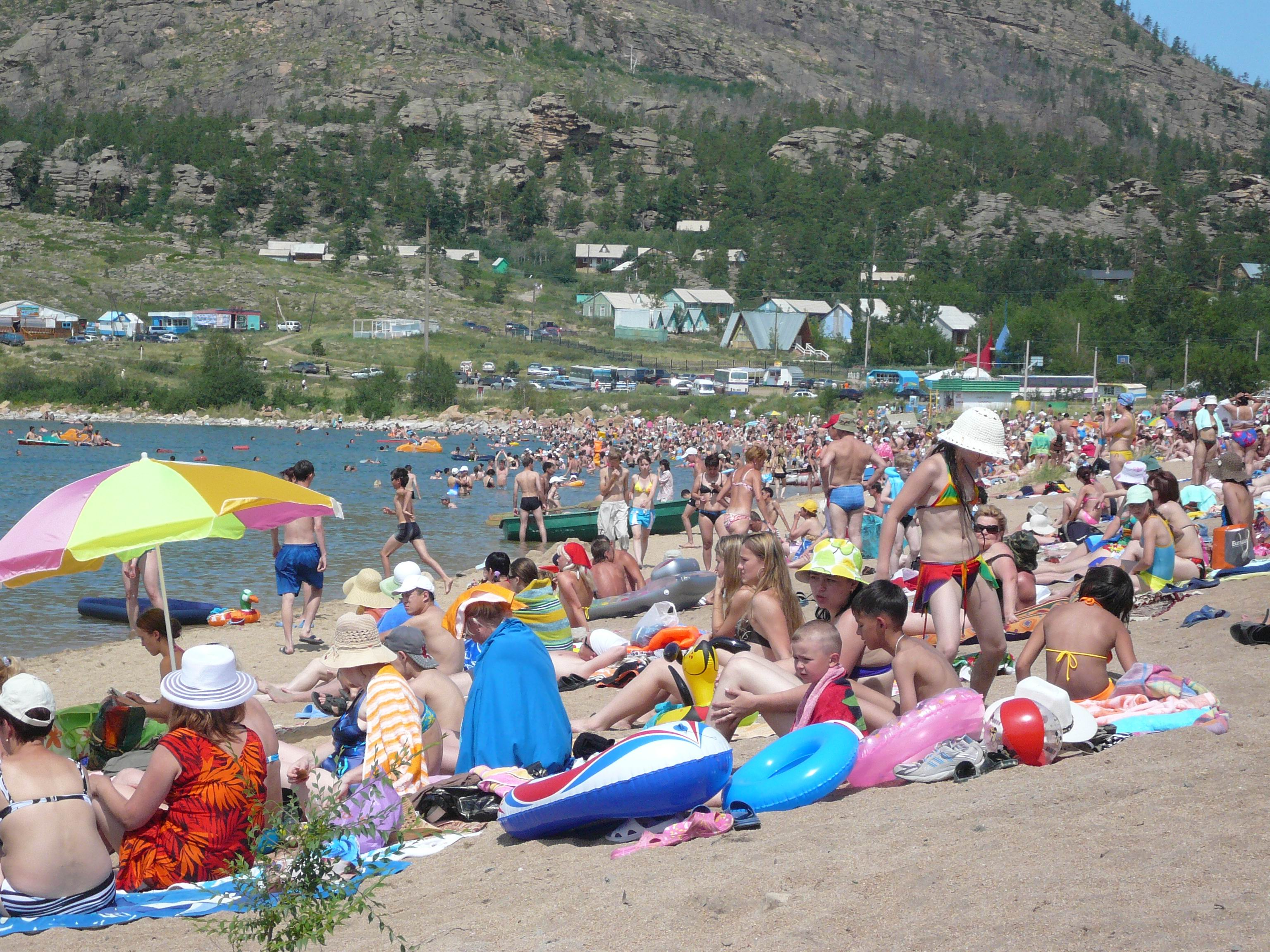 People on the Lake Dzhasybay beach